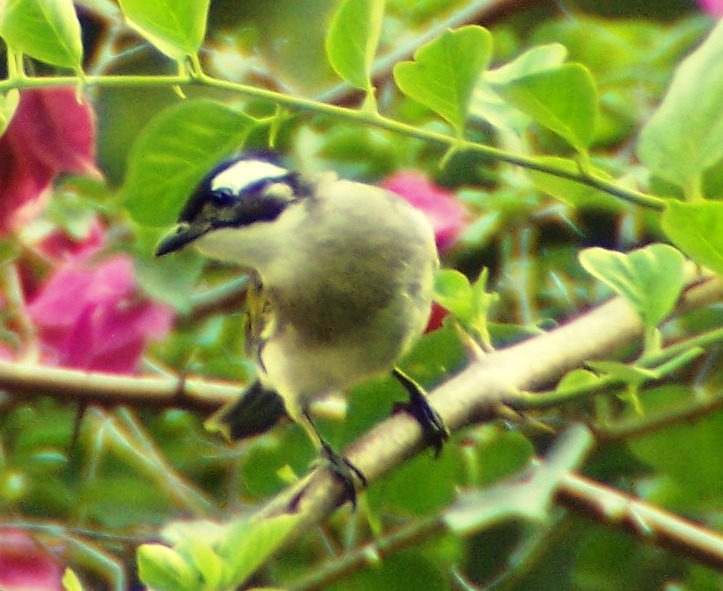 Kclama's photo